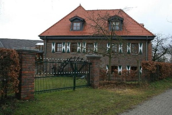 Cultural heritage monument No. 21 in Übach-Palenberg